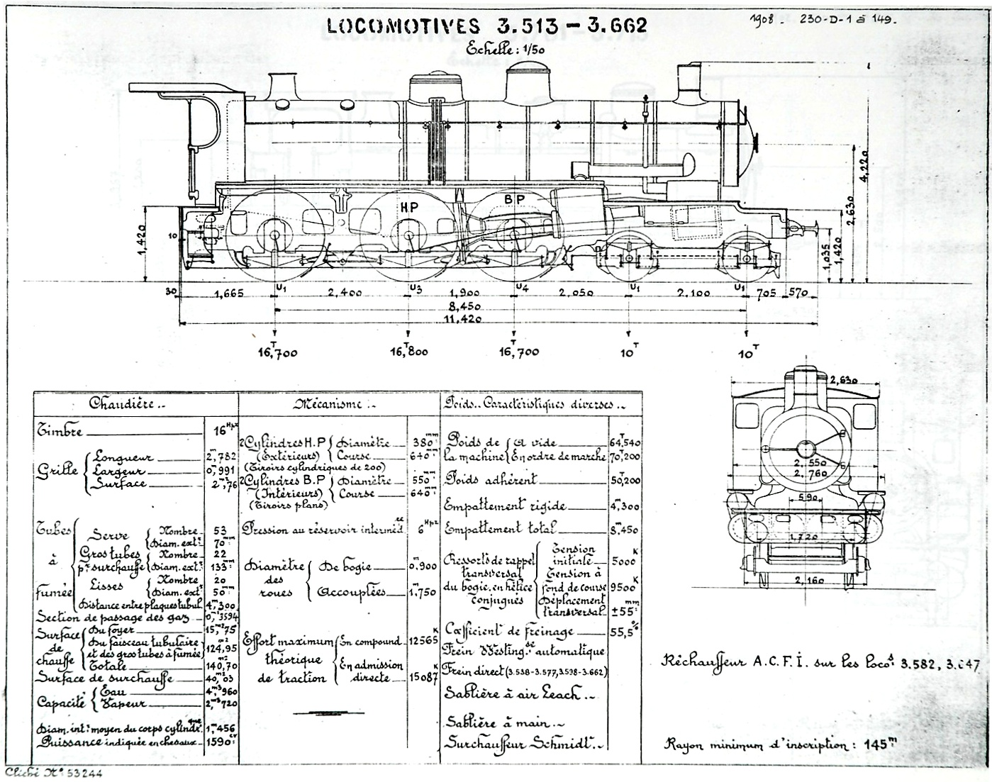 Drawing of steam locomotive Nord 230 class 3.513 to 3.662 future 230 D.